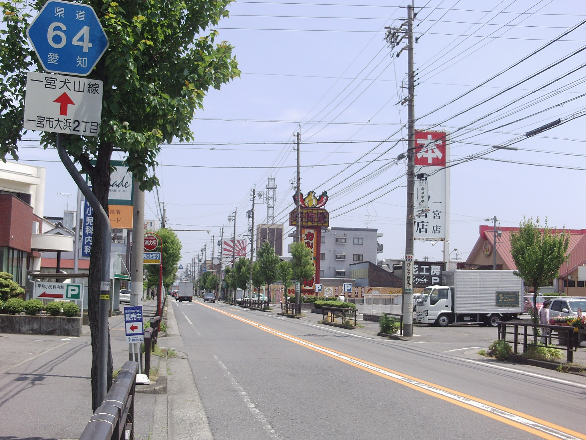 Aichi prefectural road No.64 in Ohhama 2-chome, Ichinomiya, Aichi.